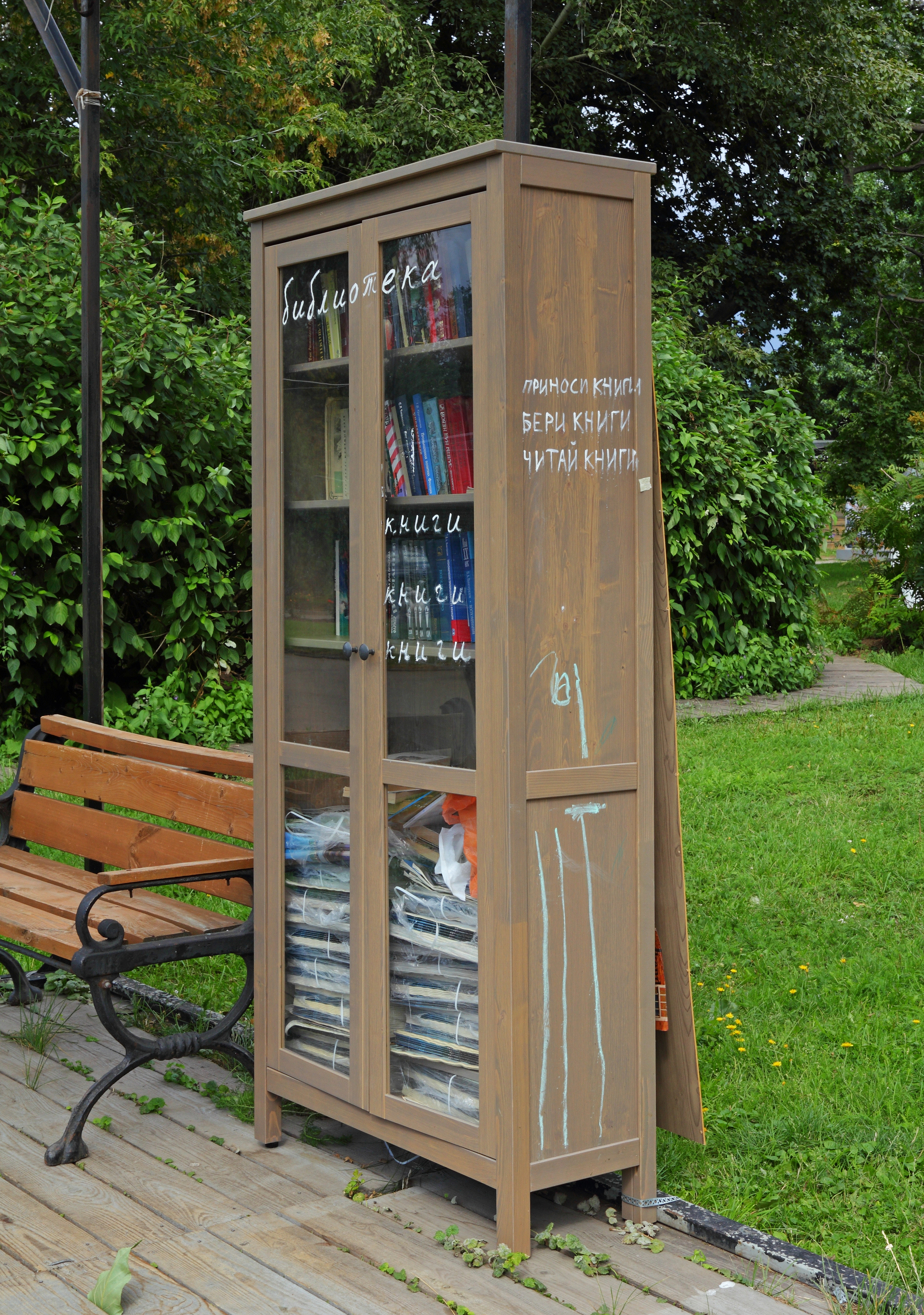 Public bookcase in the «Museon» sculpture park in Moscow.